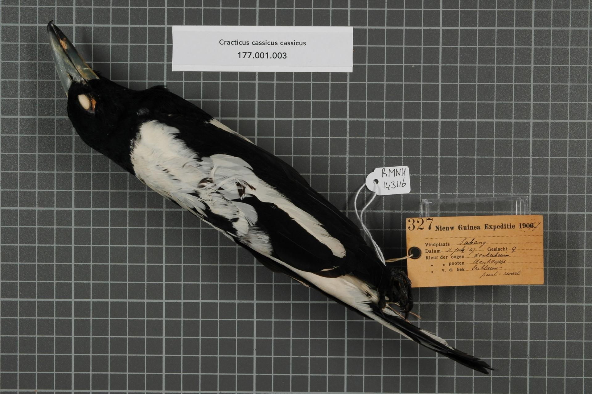 Cracticus cassicus cassicus (Boddaert, 1783)